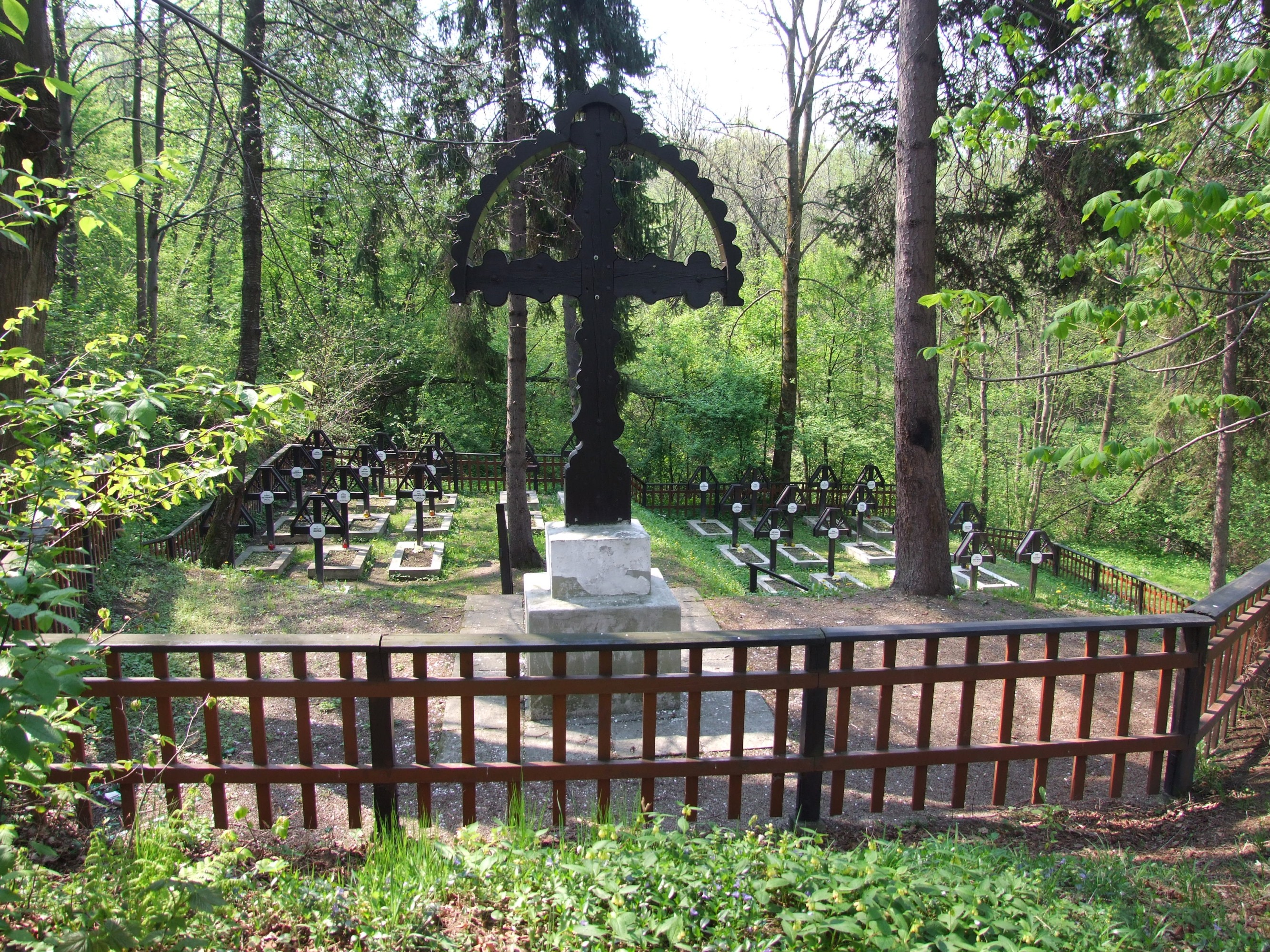 World War I Cemetery nr 365 in Tymbark